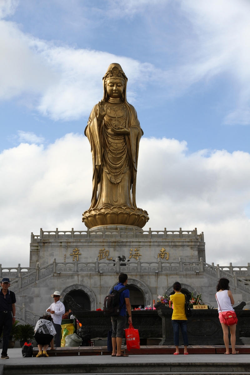 Giant Guanyin Goddess status on Mount Putuo Shan island